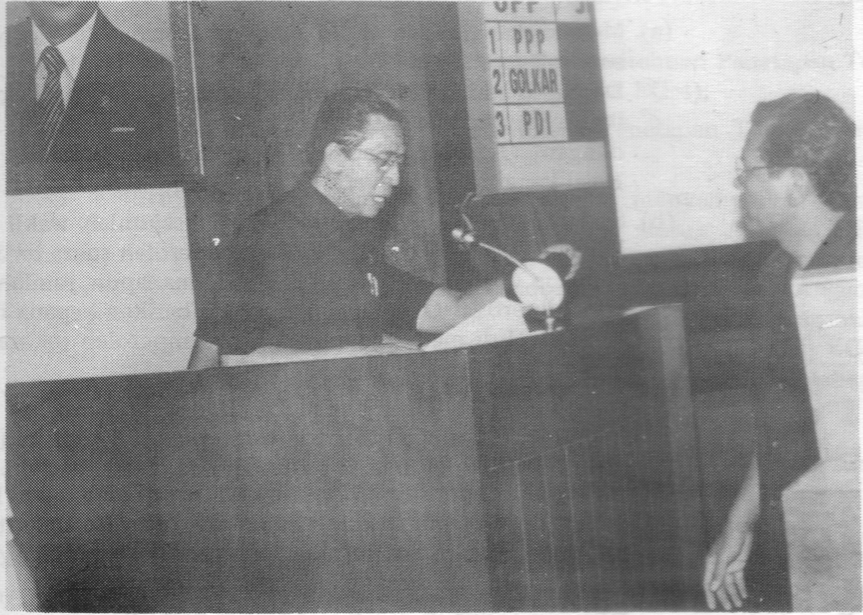 P. Gunardo announces the official results of the votes received for the DPR for each Province by each political party in the Meeting of the Determination of Election Results.